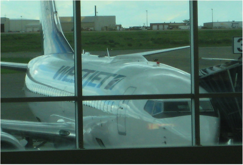 A Westjet B737 leaving for Hamilton